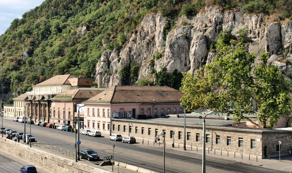 Rudas Bath building at the foot of Gellért Hill, Budapest, Hungary